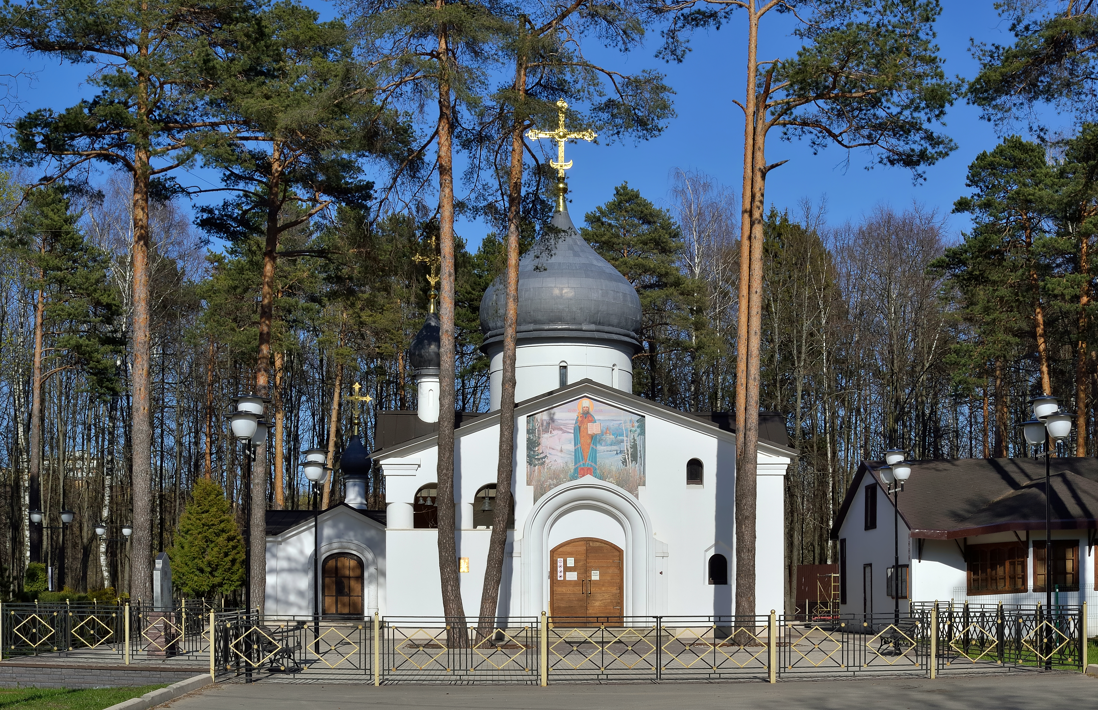 Korolyov, Moscow Oblast. The Church of Saint Hieromartyr Vladimir, Metropolitan of Kiev and Gallich. 2013. A view from the west.